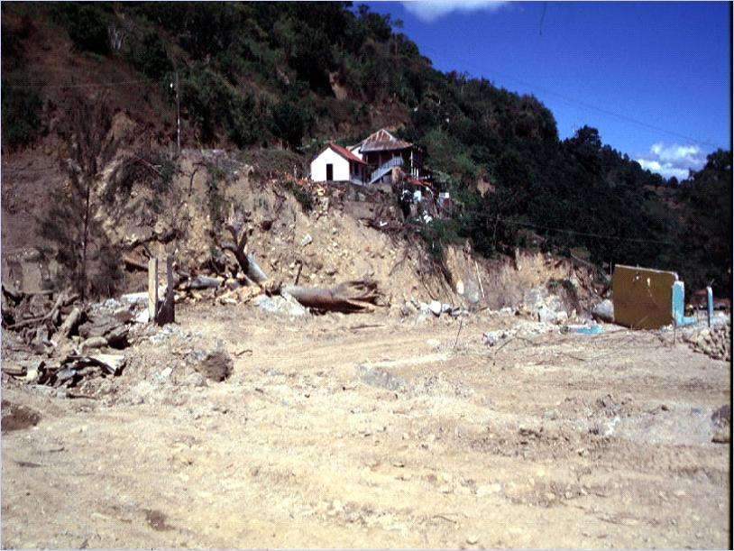 This image shows damage in San Juancito, Honduras caused by Hurricane Mitch in October of 1998.